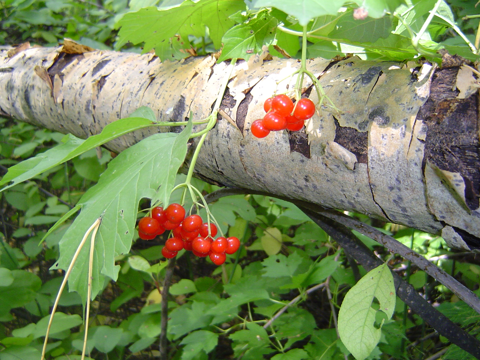 Viburnum opulus berries (Novosibirsk, September)